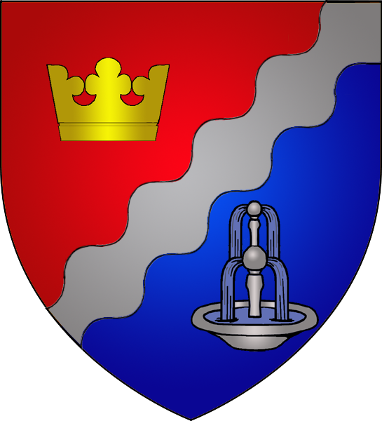 Coat of arms of the municipality of Hobscheid, Luxembourg